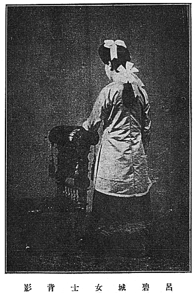 Lü Bicheng viewed from behind